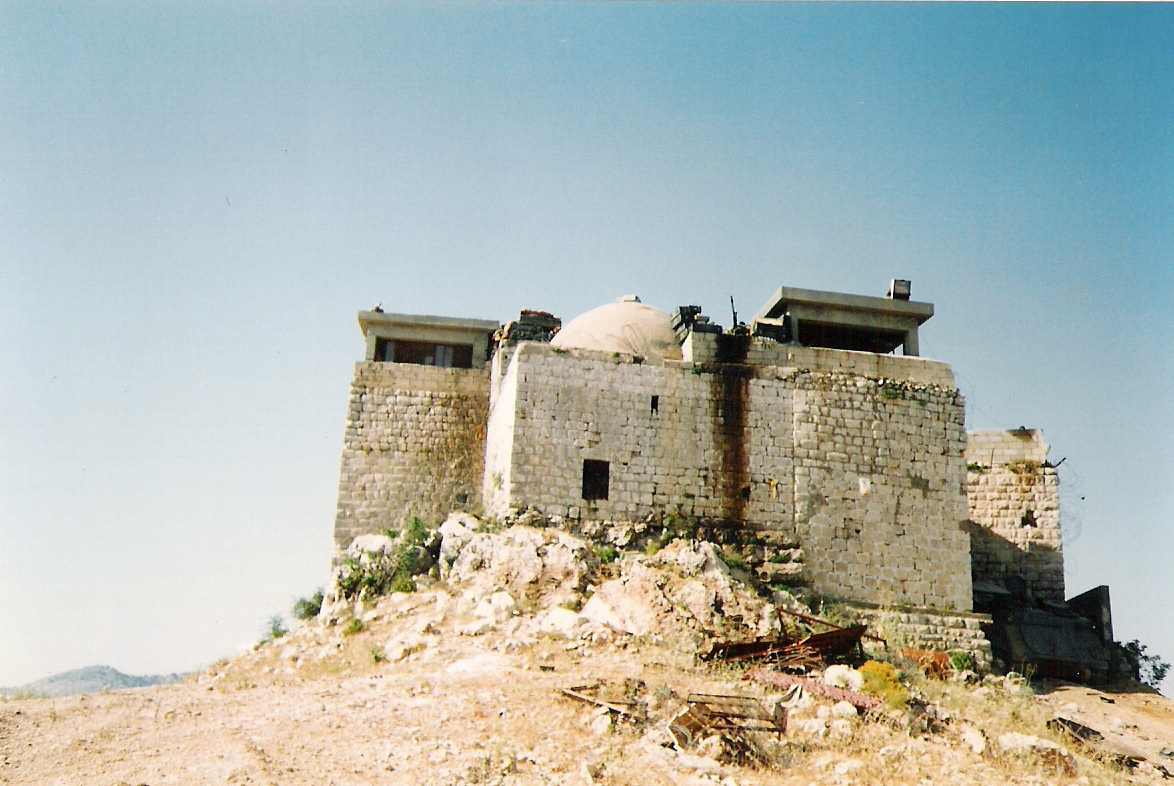 מוצב סוג'וד ברצועת הביטחון בלבנון ( התמונה צולמה על ידי יוסי סופר)